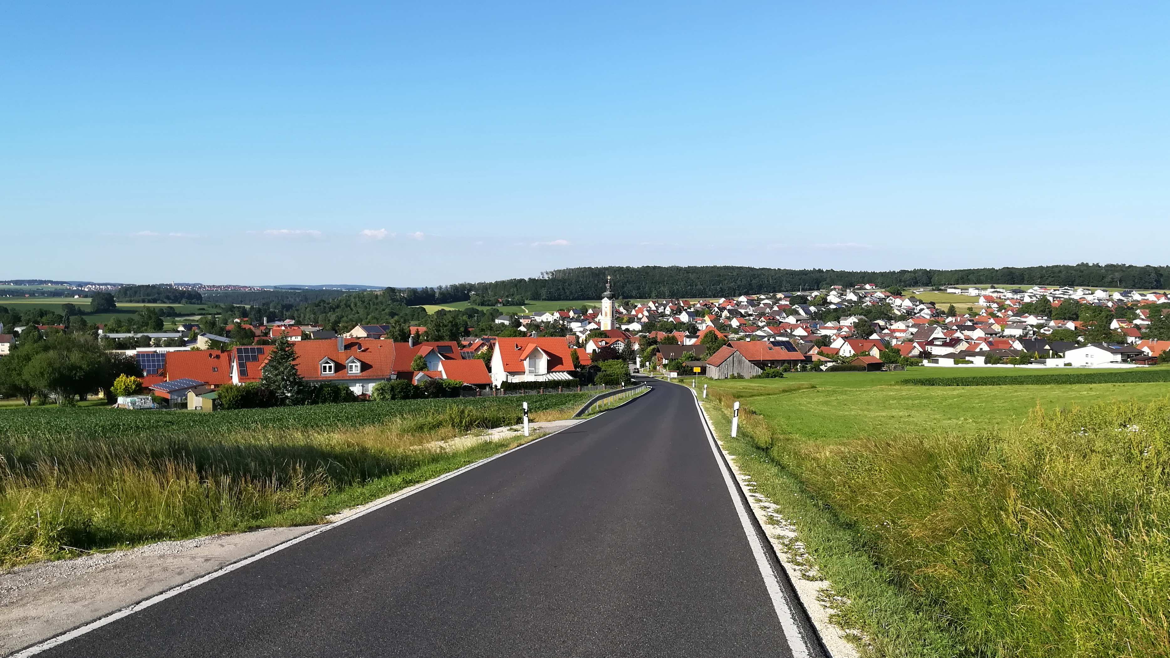 Painten, a market town in the rural district Kelheim (Bavaria, Germany)